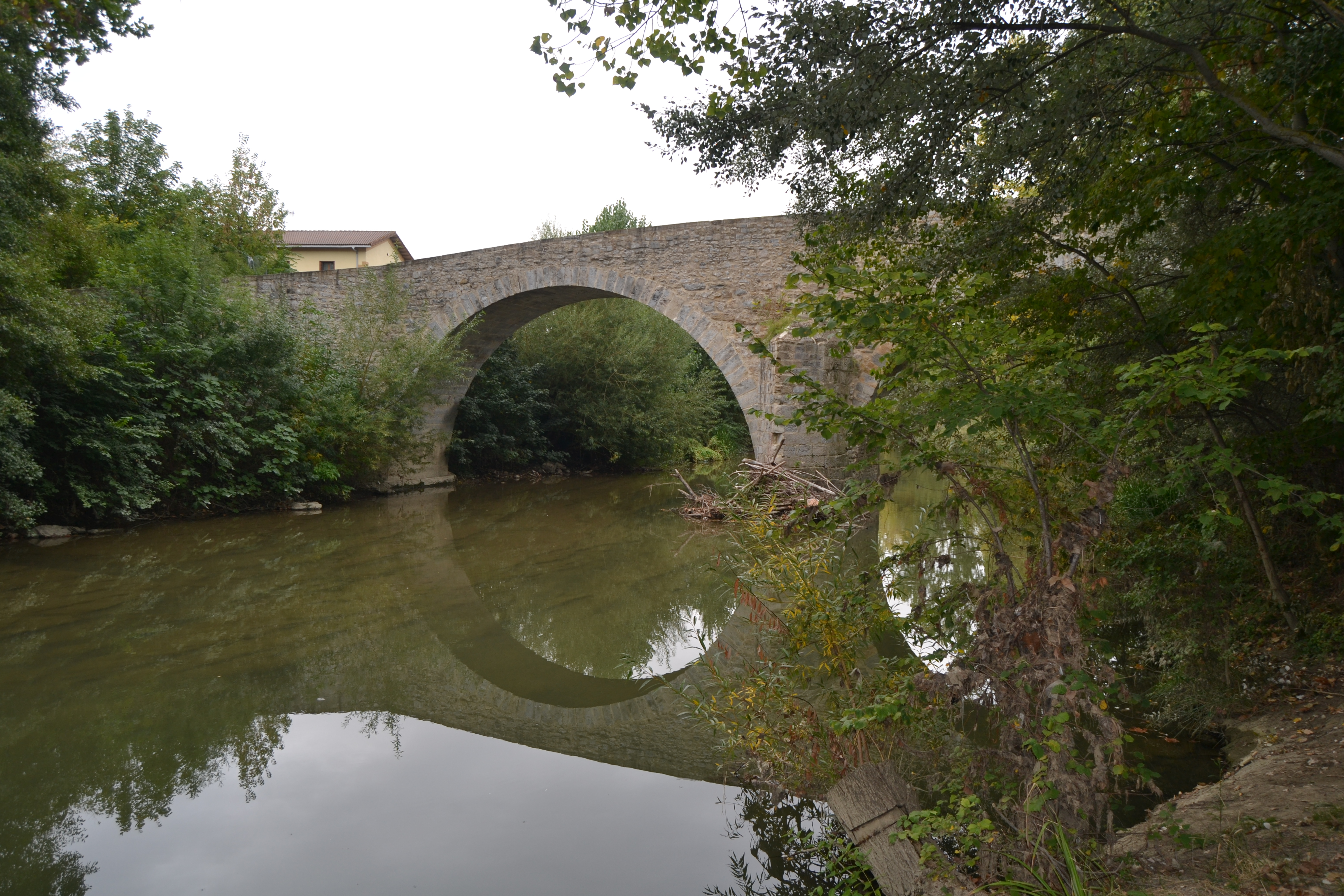 Bridge of Miluze. Iruñea-Pamplona, Navarre. Basque Country.